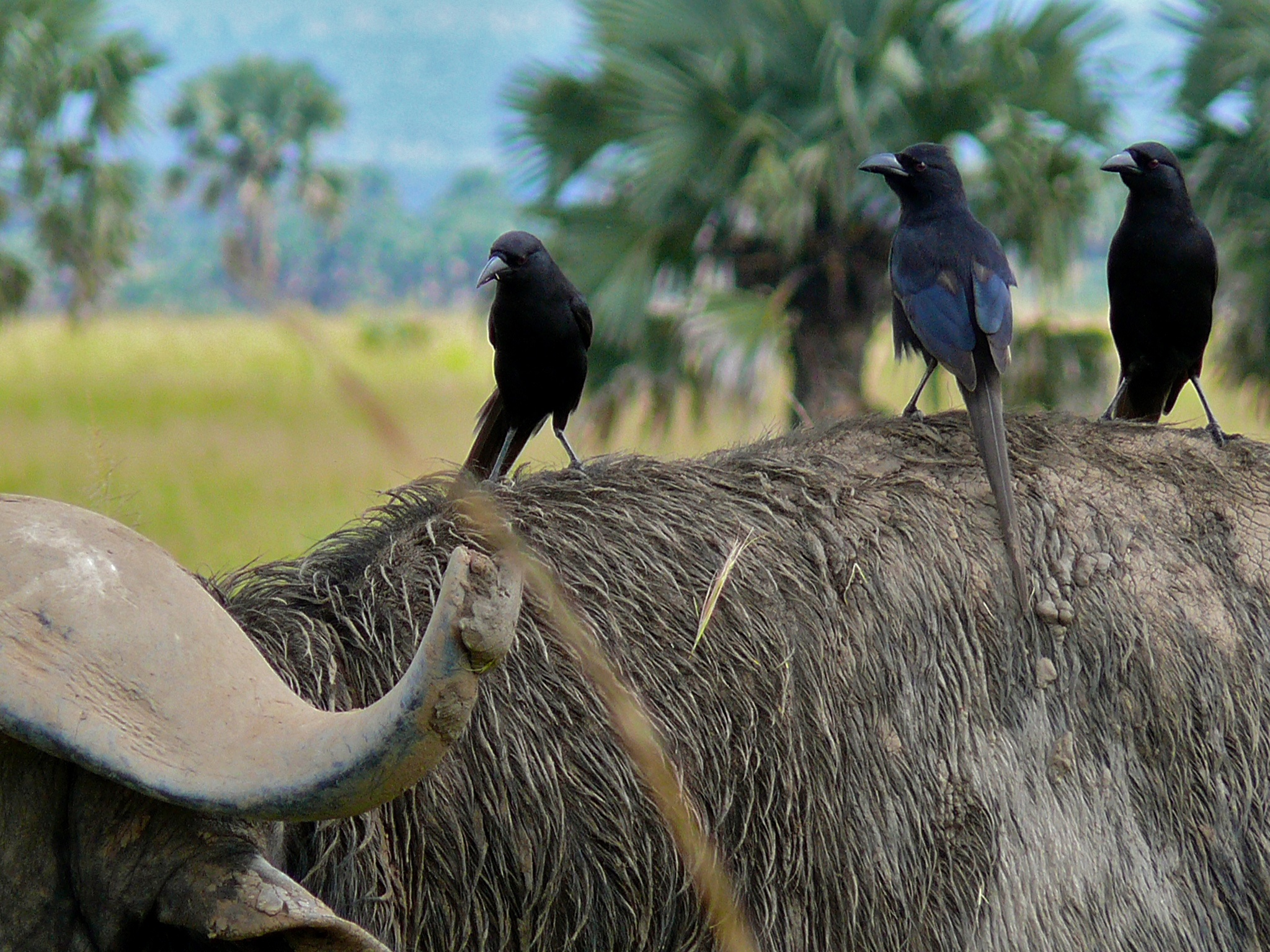 Murchison's Falls NP, UGANDA